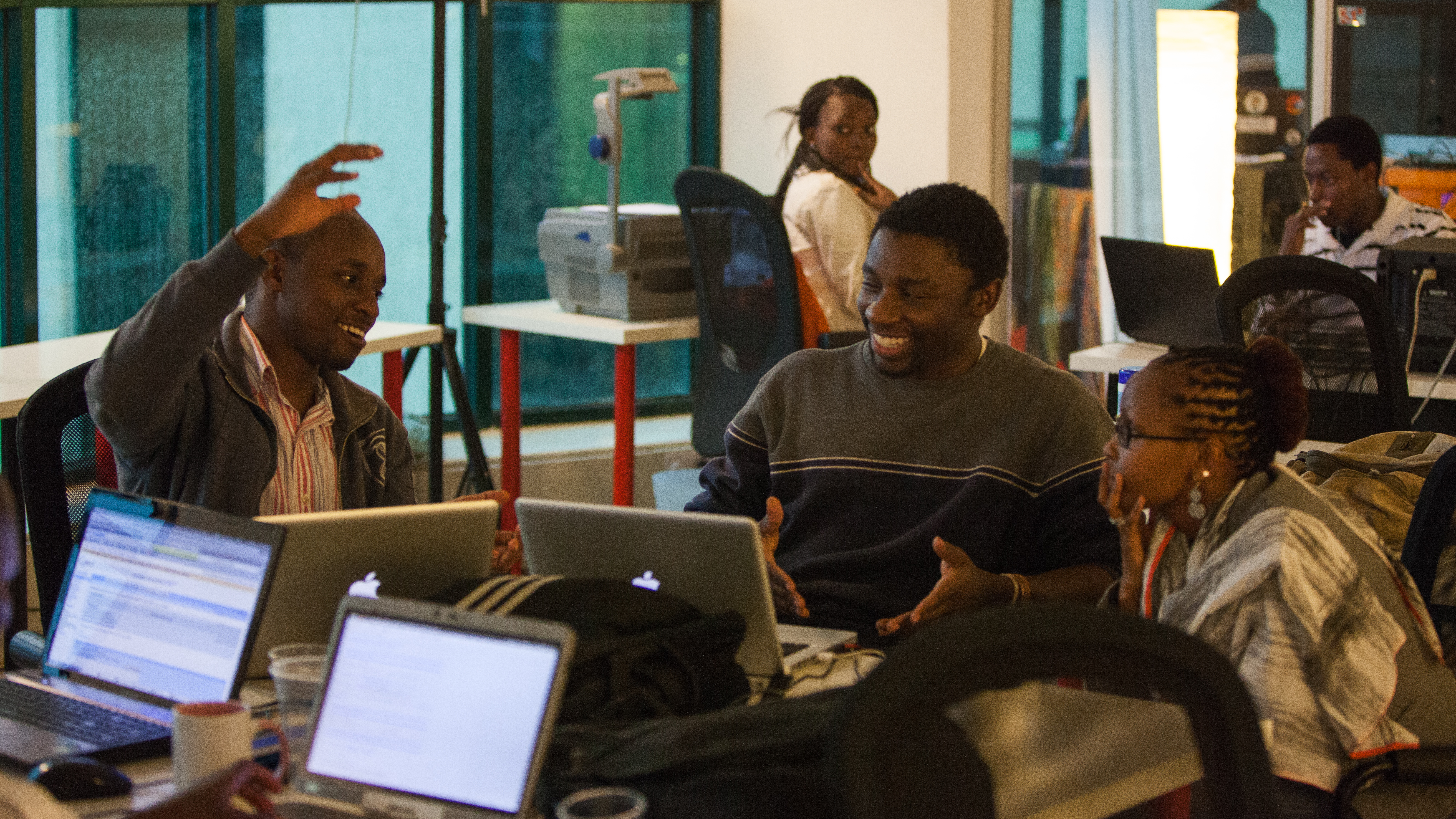 chatting with @afromusing